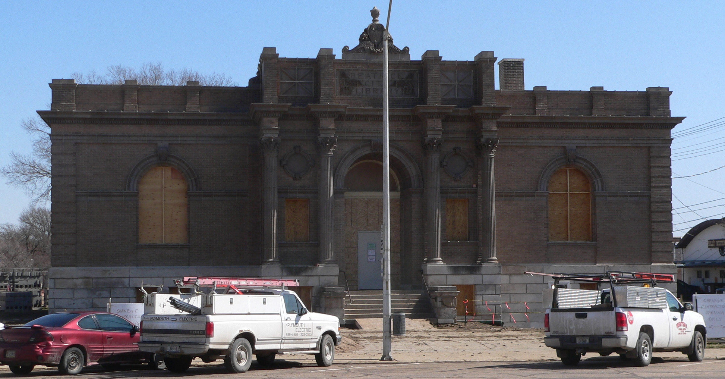 Beatrice City Library, located at 220 N. 5th Street in Beatrice, Nebraska; seen from the west. At the time the photo was taken, the building was undergoing extensive restoration.